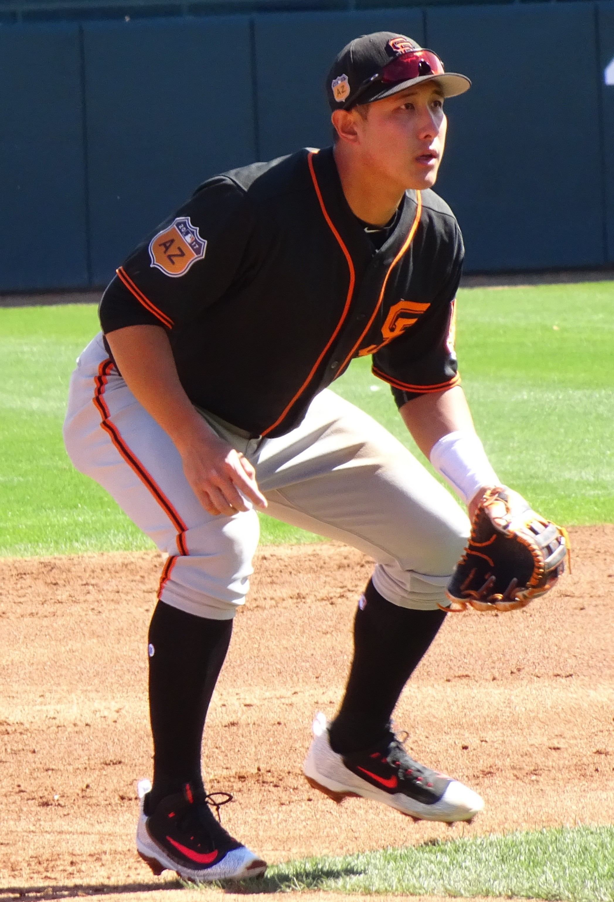 Jae-Gyun Hwang